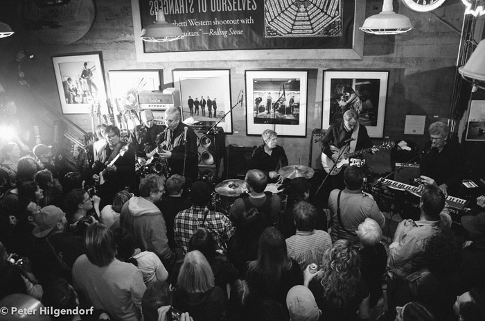 The Sonics perform at Easy Street Records on Record Store Day 2015 - Photo: Peter Hilgendorf